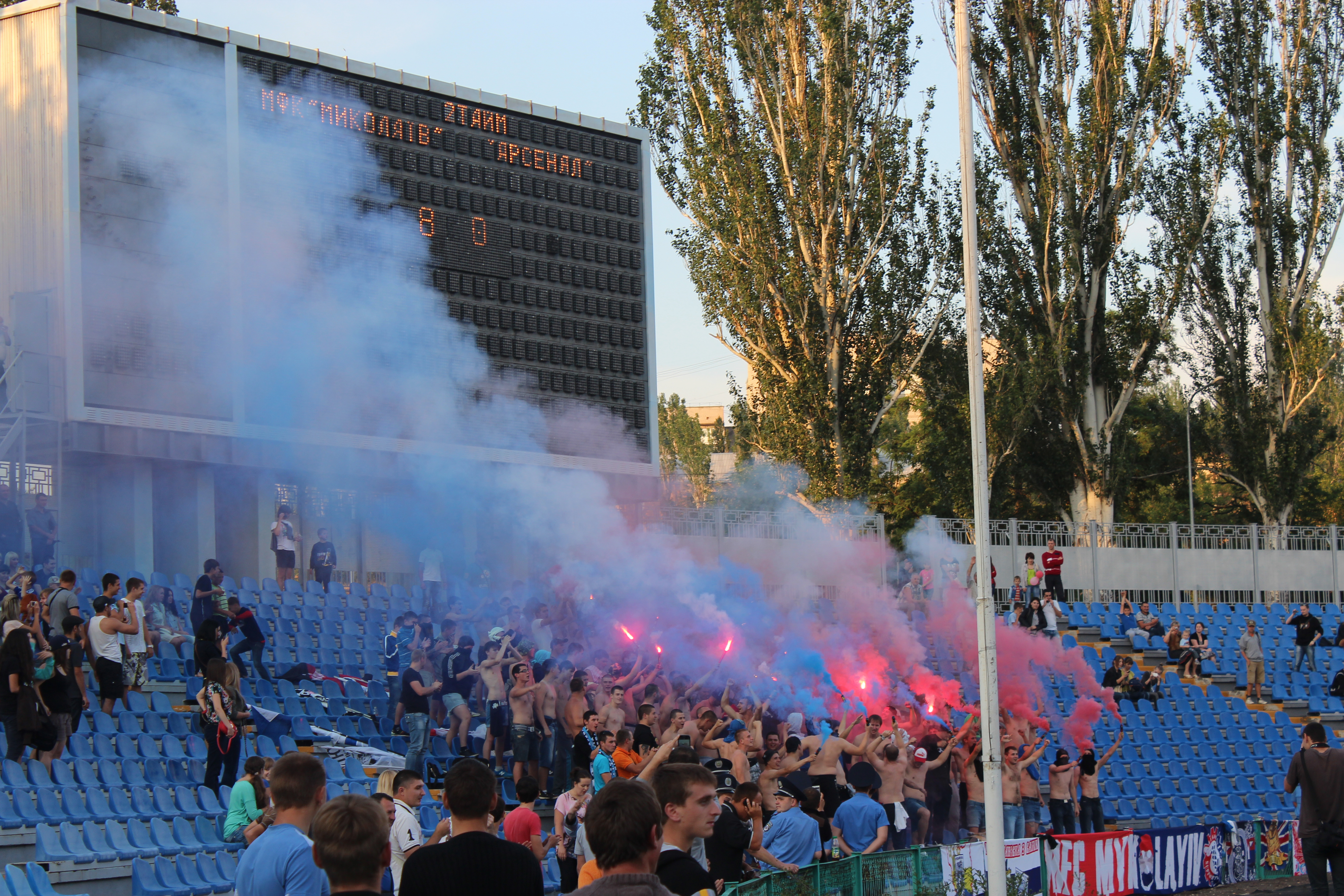 fans of MFC Mykolaiv